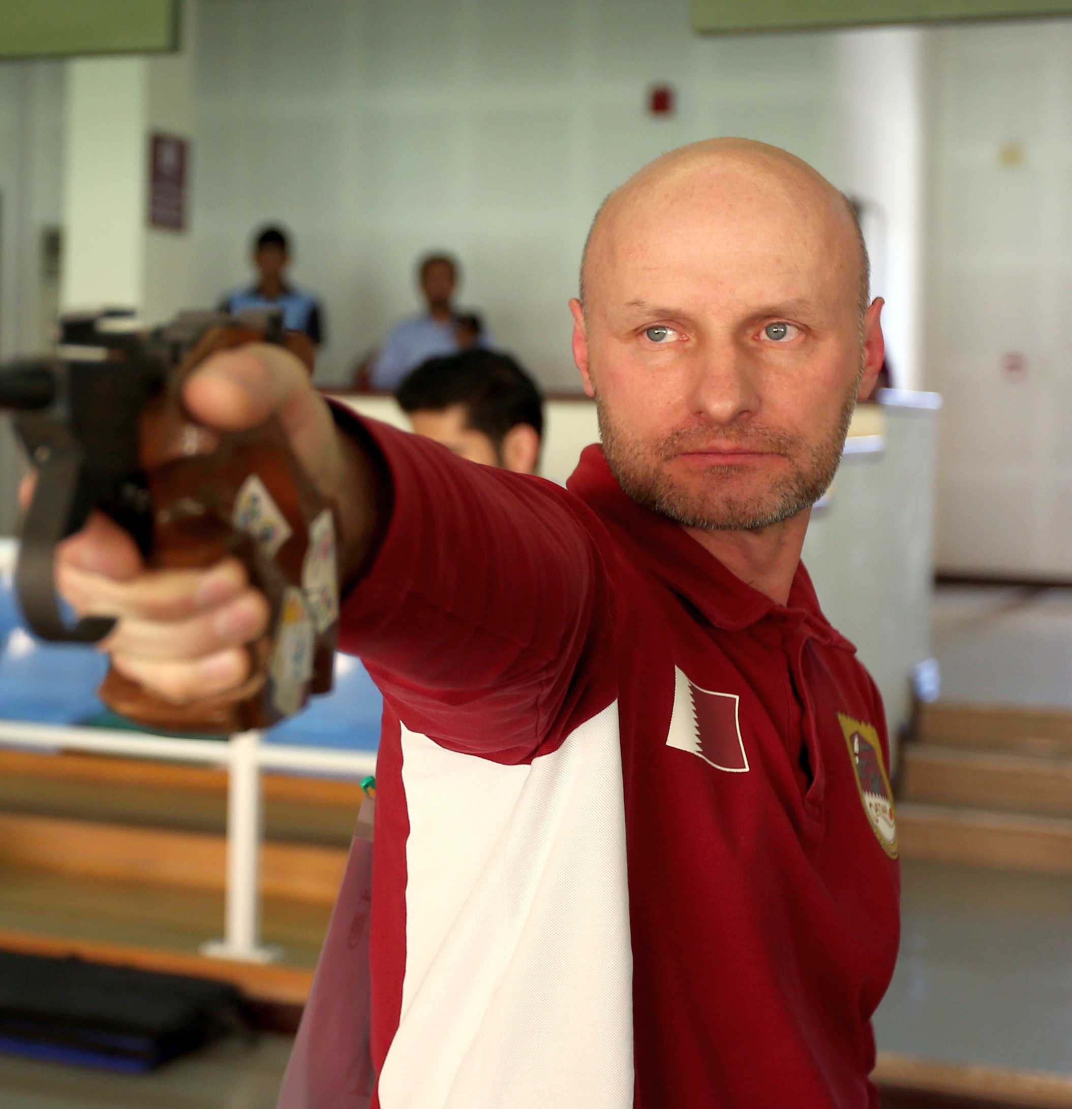 Ace Qatari shooter Oleg Engachev during a competition in Doha